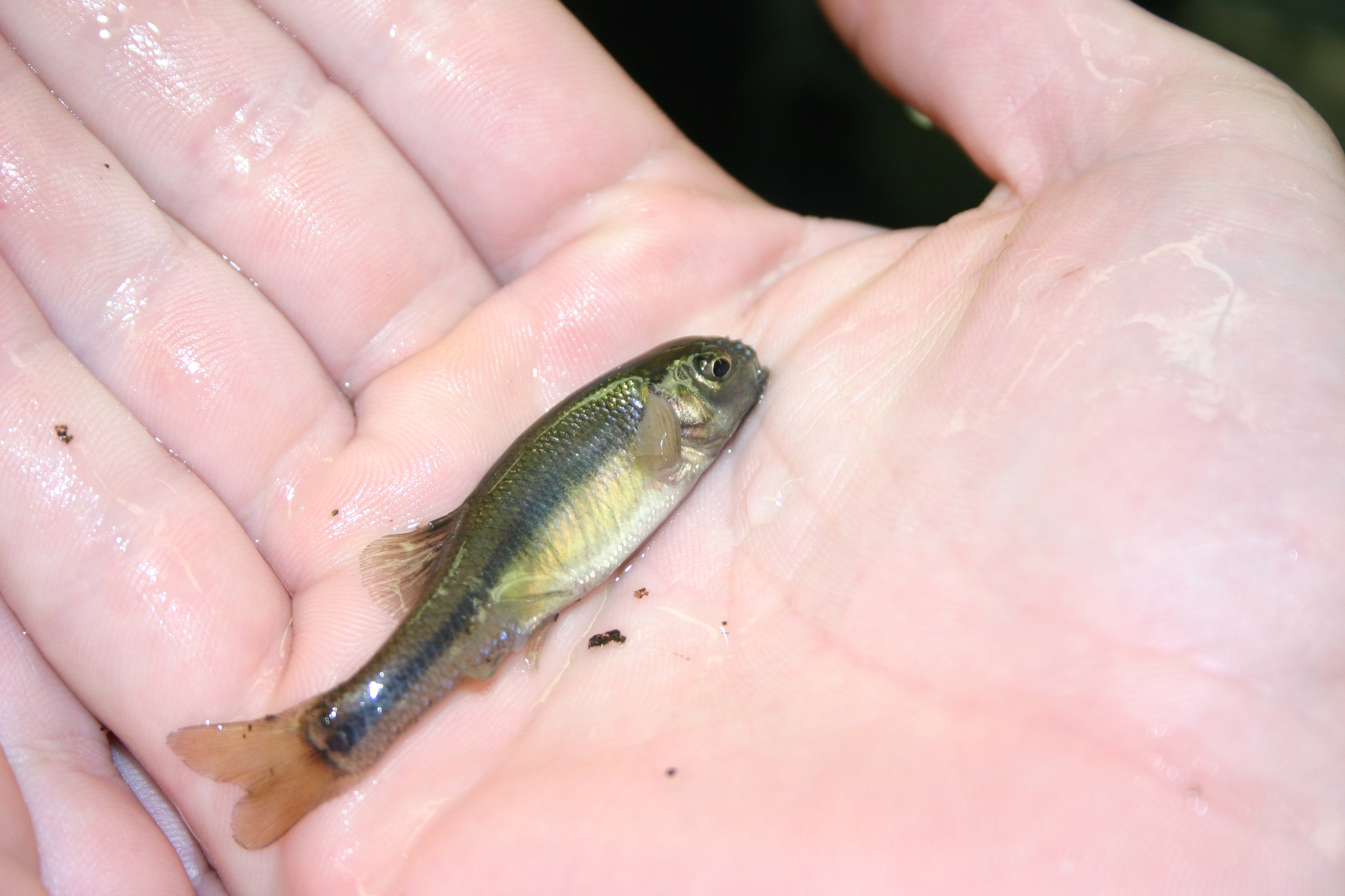 Fathead Minnow (Pimephales promelas)